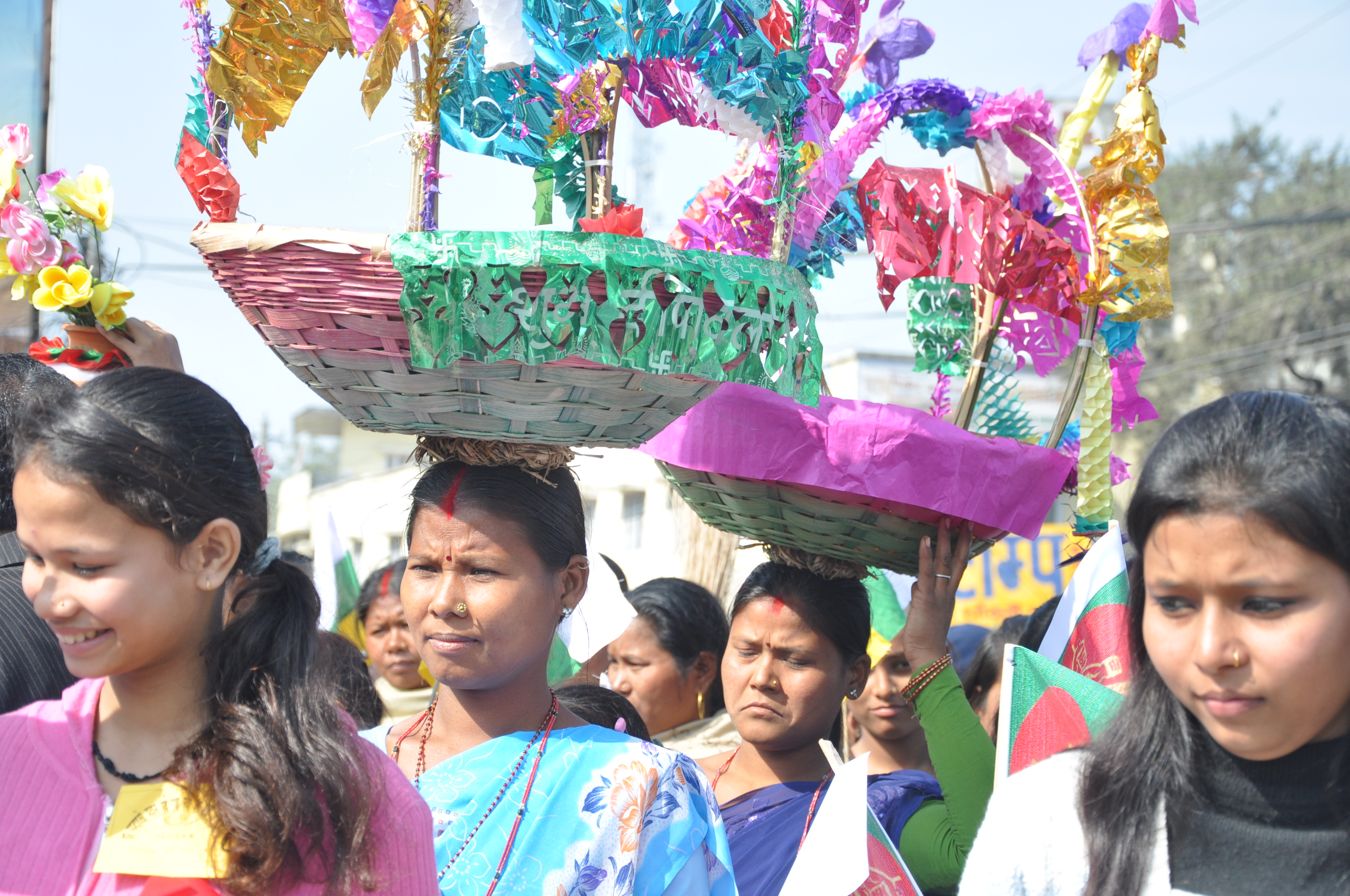 माघी मनाउदै